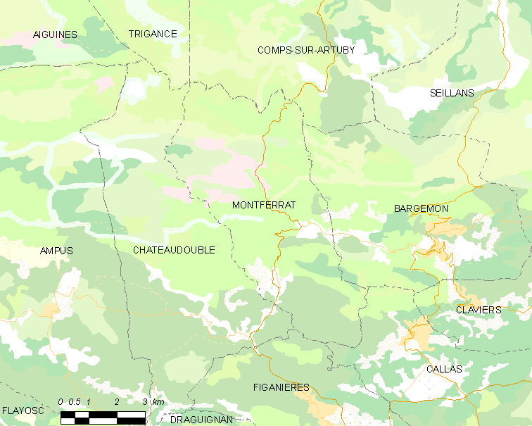 Map of French municipality Montferrat